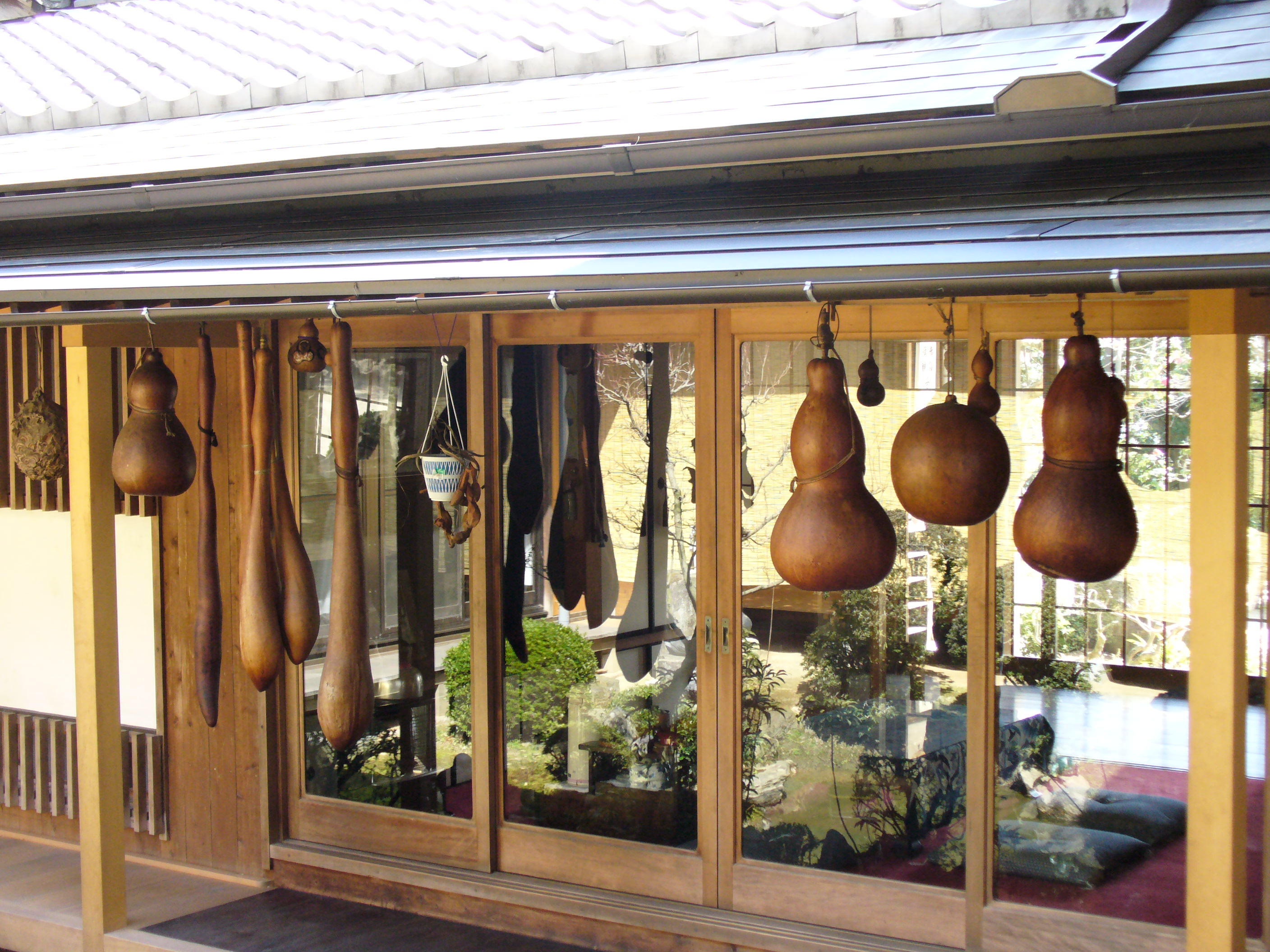 Photograph of Lagenaria siceraria, taken in Kira cho, Aichi, Japan.